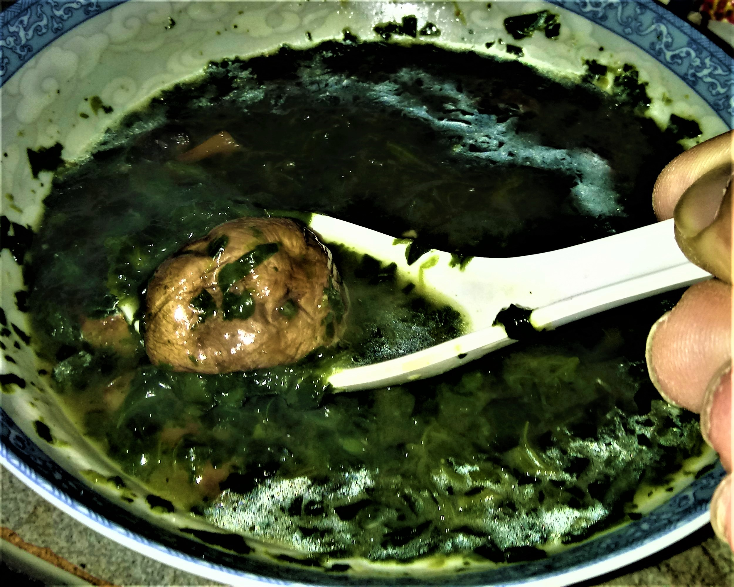 A bowl of Patriotic Soup, served to Emperor Bing in a Buddhist monastery at Chaoshan region during the final year of China's Song dynasty centuries ago around 1278, when he, his family, and Song court and military members were fleeing from the Mongols. Its main ingredients are leaf vegetable (spinach), edible mushrooms, and vegetable broth. This version of the soup was the uploader's attempt to recreate the dish more closely to as it was first developed in 1278 due to using the vegetable broth and spinach (the actual leaf vegetable ingredient the preparers used back then was not known, but obviously not with sweet potato leaves due to there were no sweet potatoes back then until the 16th century during the Ming dynasty, and the monks at that time would never use chicken or beef broth). The uploader himself is a Chaoshanese descent. Recipe can be found here, in Chinese.[1] However, the uploader has made his own simplified recipe of this dish and written it in English. Ingredients: 1.125 lb. frozen chopped spinach 1 teaspoon cooking oil 1.5 cups vegetable broth 5 straw mushrooms, cut in halves. 1/2 teaspoon salt and sesame oil 1 teaspoon cornstarch 1. Bring a saucepan of water to boil over high heat, add the frozen chopped spinach, and blanch for 5 minutes. Drain and rinse under cold water. 2. Heat the oil in a wok or skillet over medium heat, add the spinach and sit-fry for 2 minutes. Transfer the spinach to a saucepan with vegetable broth, then add the mushrooms, sesame oil, and salt. Bring to a boil over high heat for 5 minutes. 3. Mix the cornstarch with 1.5 tablespoon water in a small bowl and stir this mixture into the soup. Bring to a boil, stirring, for seconds to thicken the soup. Adjust the seasoning to taste by adding dashes of soy sauce, salt, and white pepper if desire, then serve. Serves: 2-3